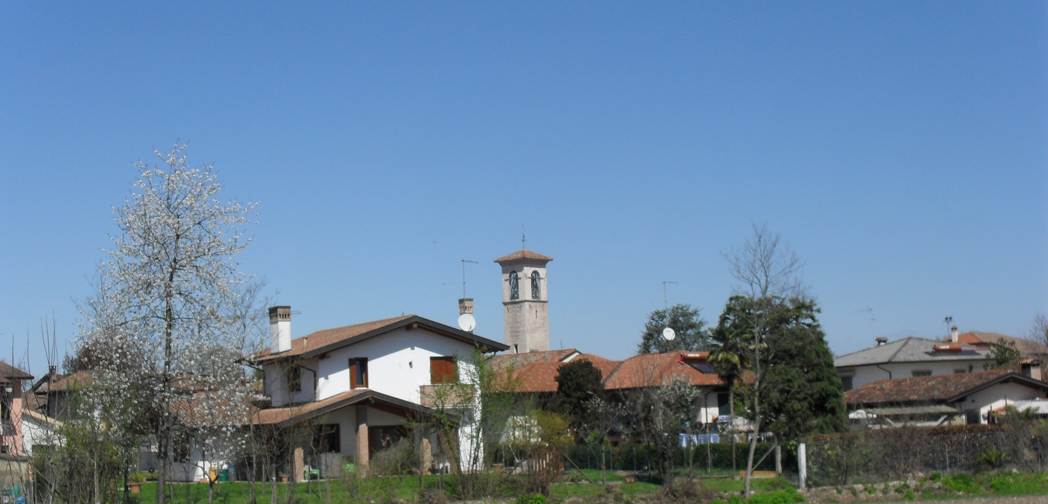 Rosa, little village in Friuli (north east of Italy)-view from sud-west